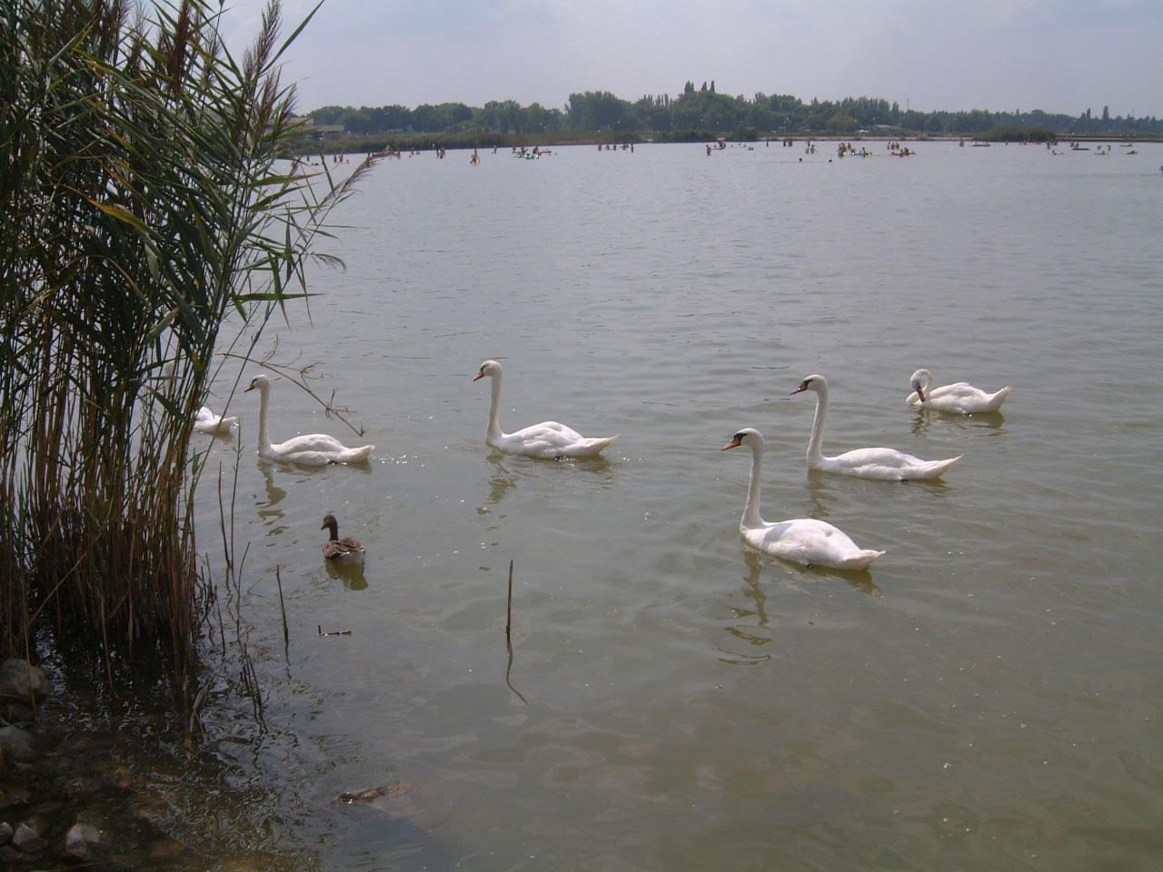 Photo of Lake Velence in Hungary.